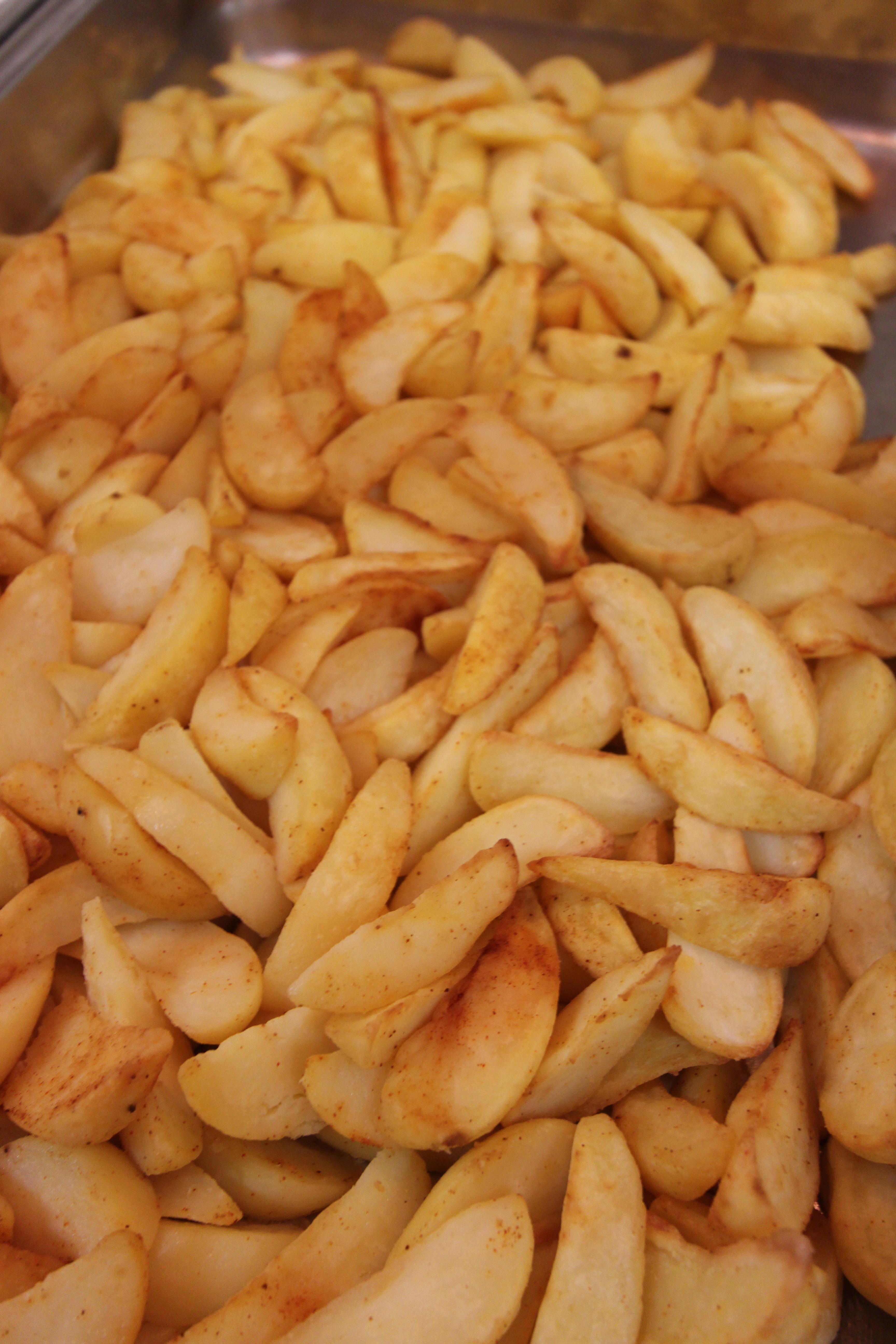 Potato wedges.